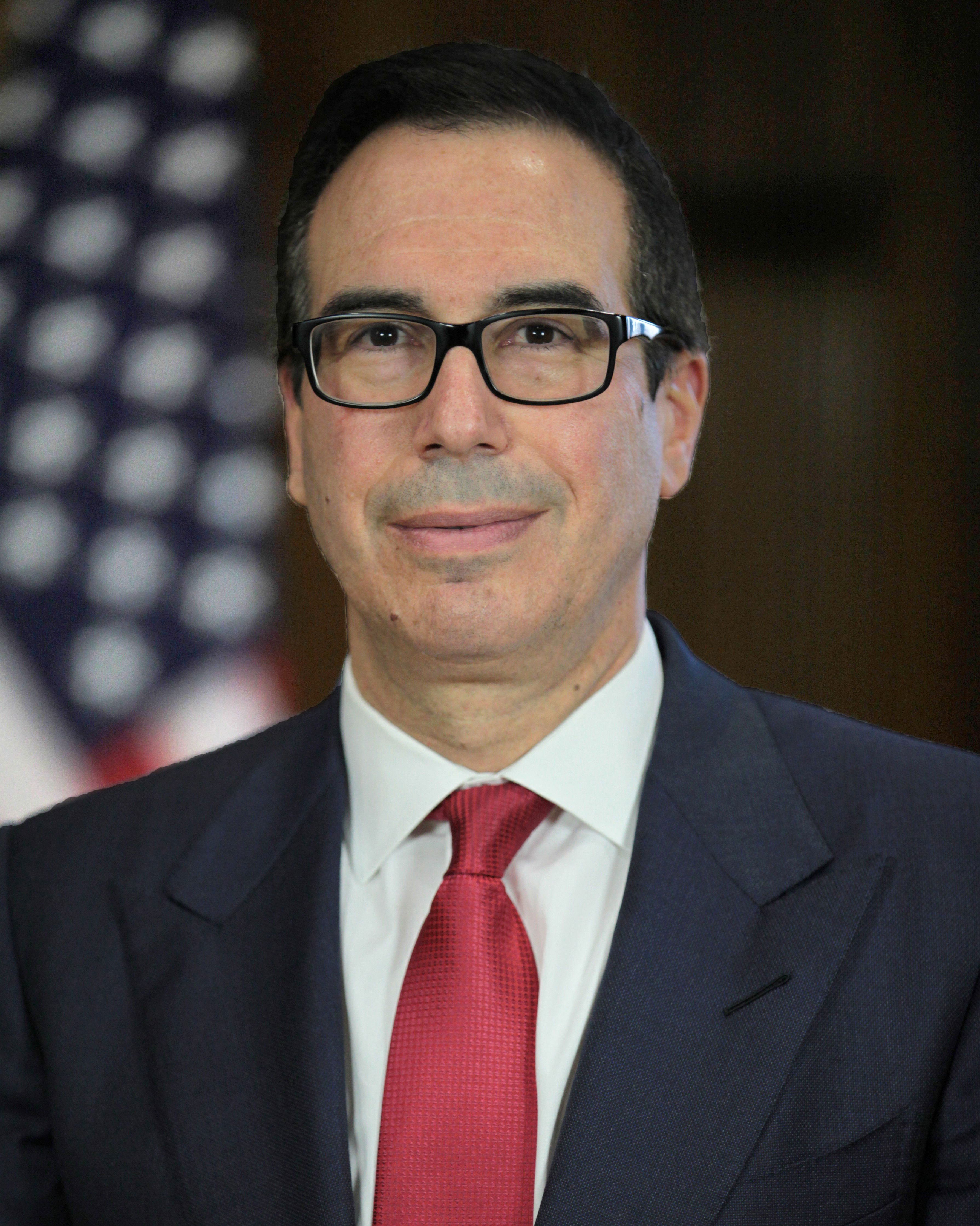 Portrait of Steven Mnuchin, President-elect Donald Trump's choice for Secretary of the Treasury